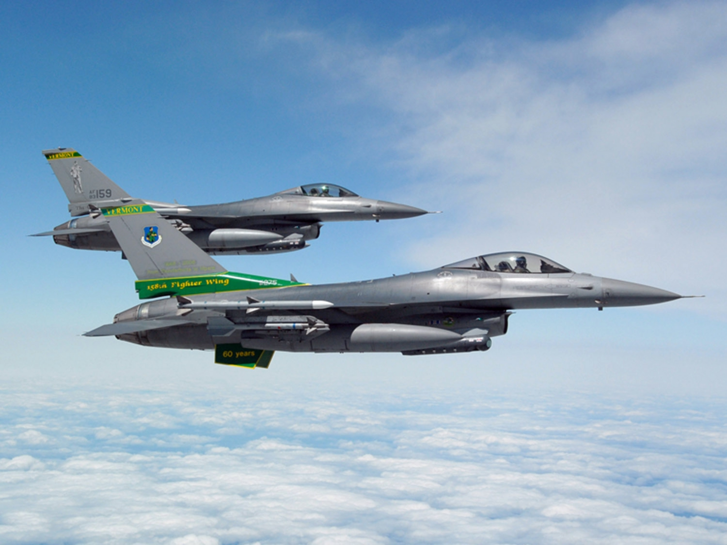 Two U.S. Air Force General Dynamics F-16C Fighting Falcon fighters (s/n 83-1159, 84-1275) from the 134th Fighter Squadron, 158th Fighter Wing, Vermont Air National Guard, in flight on 6 June 2007.